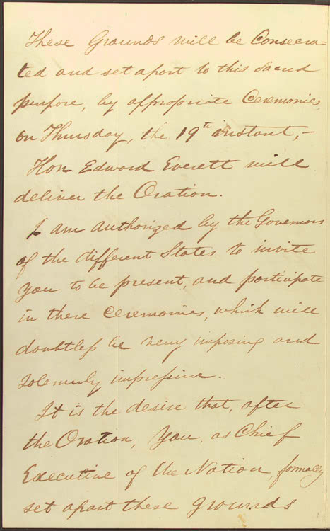 Text ...These Grounds will be consecrated and set apart to this sacred purpose, by appropriate ceremonies, on Thursday the 19th instant. Hon. Edward Everett will deliver the Oration. I am authorized by the Governors of the different States to invite you to be present and participate in these ceremonies, which will doubtless be very imposing and solemnly impressive. It is the desire that, after the Oration, you, as Chief Executive of the Nation, formally set apart these grounds...